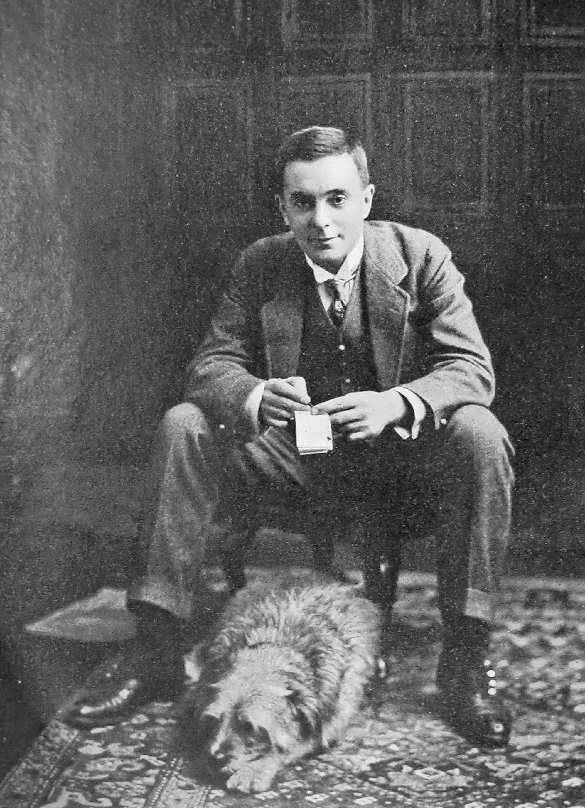 War correspondent Angus Hamilton